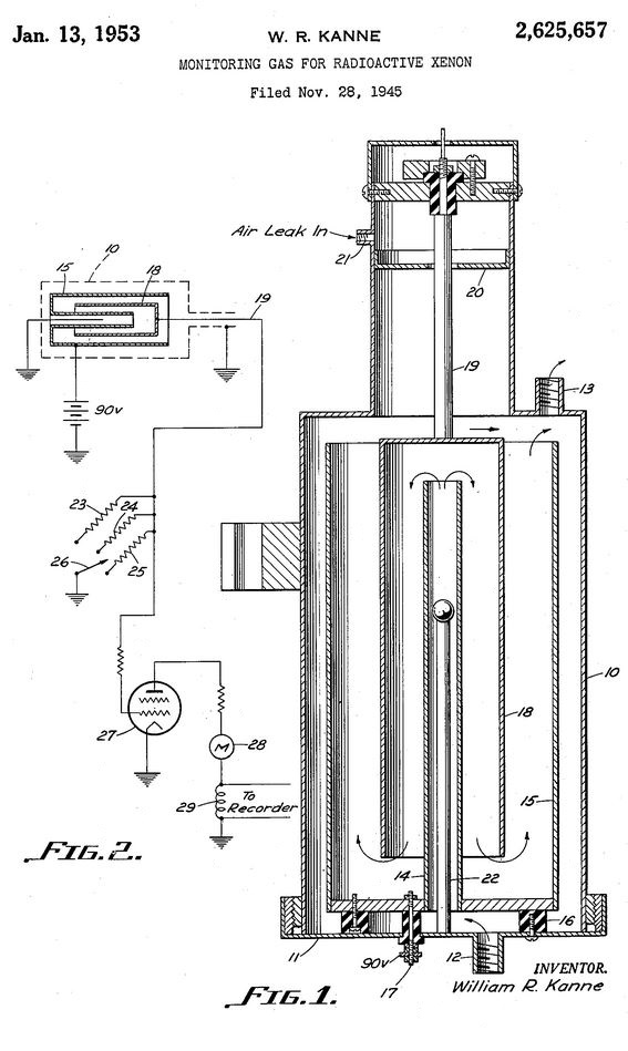 Kanne Chamber, W. R. Kanne, Monitoring Gas for Radioactive Xenon, U.S. Patent 2,625,657, January 13, 1953. Filed Nov. 28, 1945